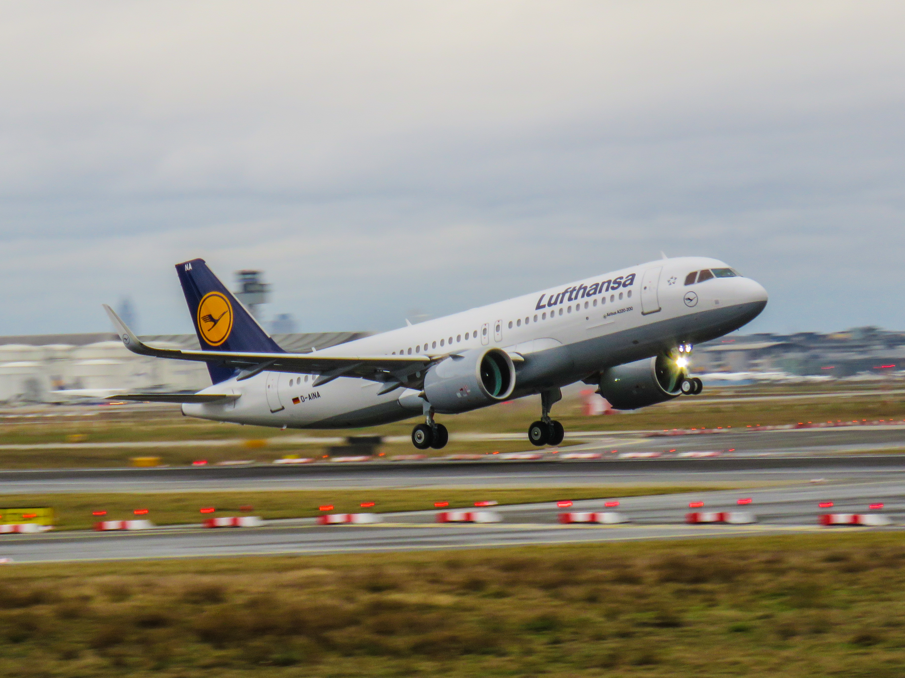 Lufthansa Airbus A320 neo D-AINA, The world's first A320 neo